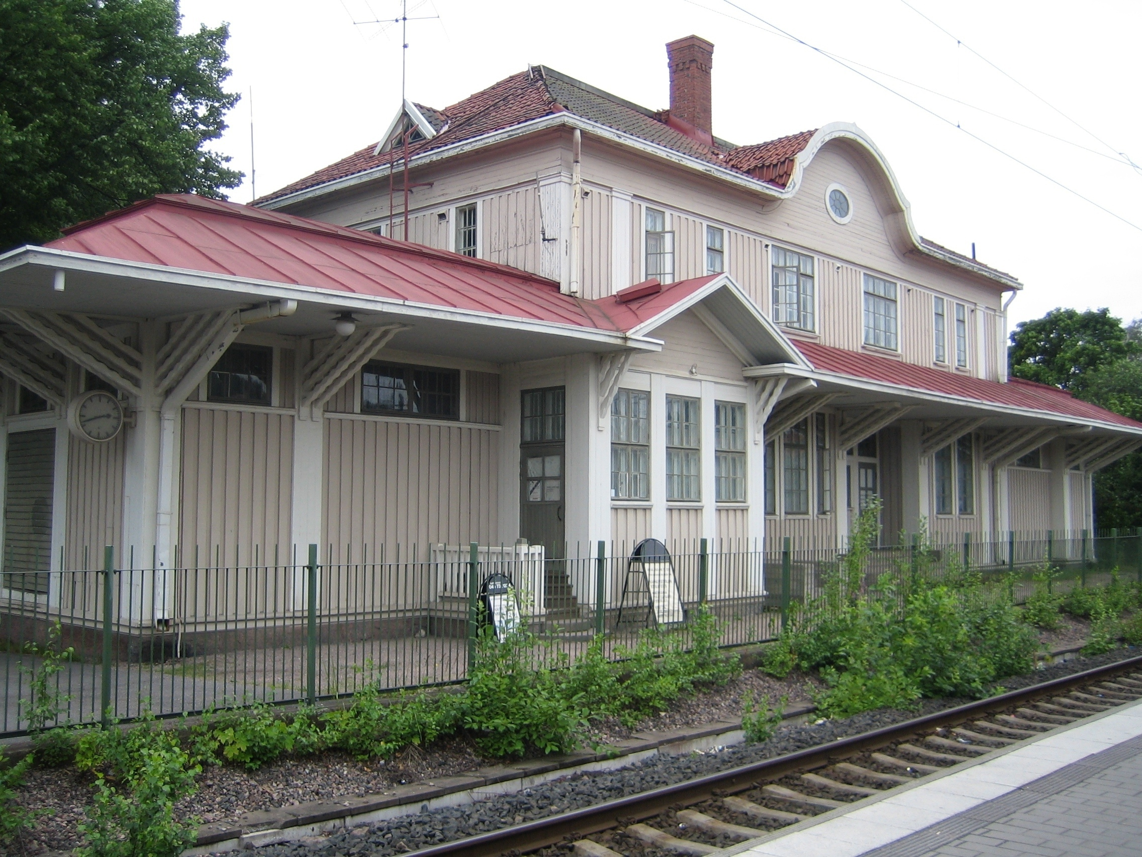 Huopalahti railway station, Helsinki, Finland